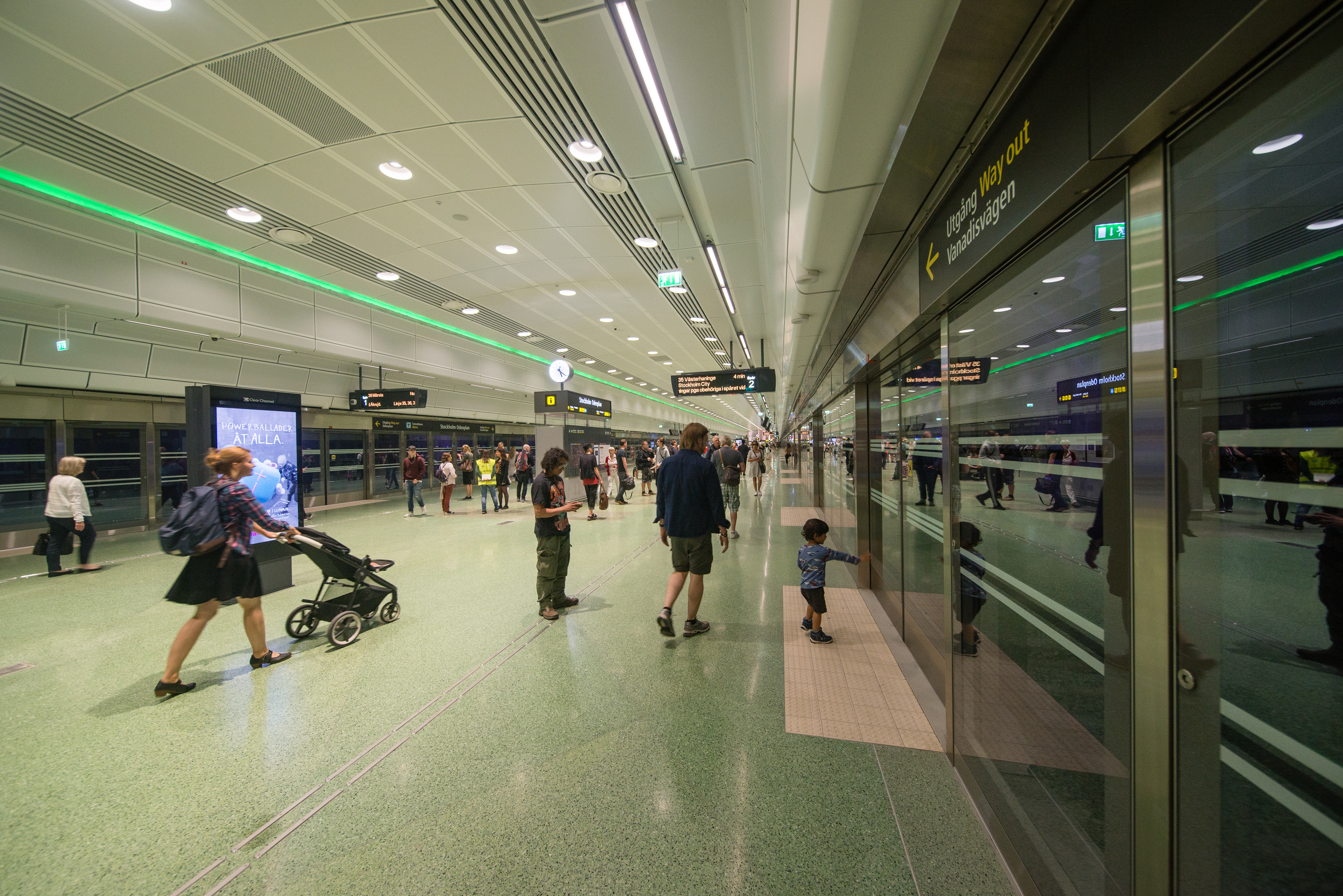 Odenplans pendelstågsstation (Odenplan commuter train station).